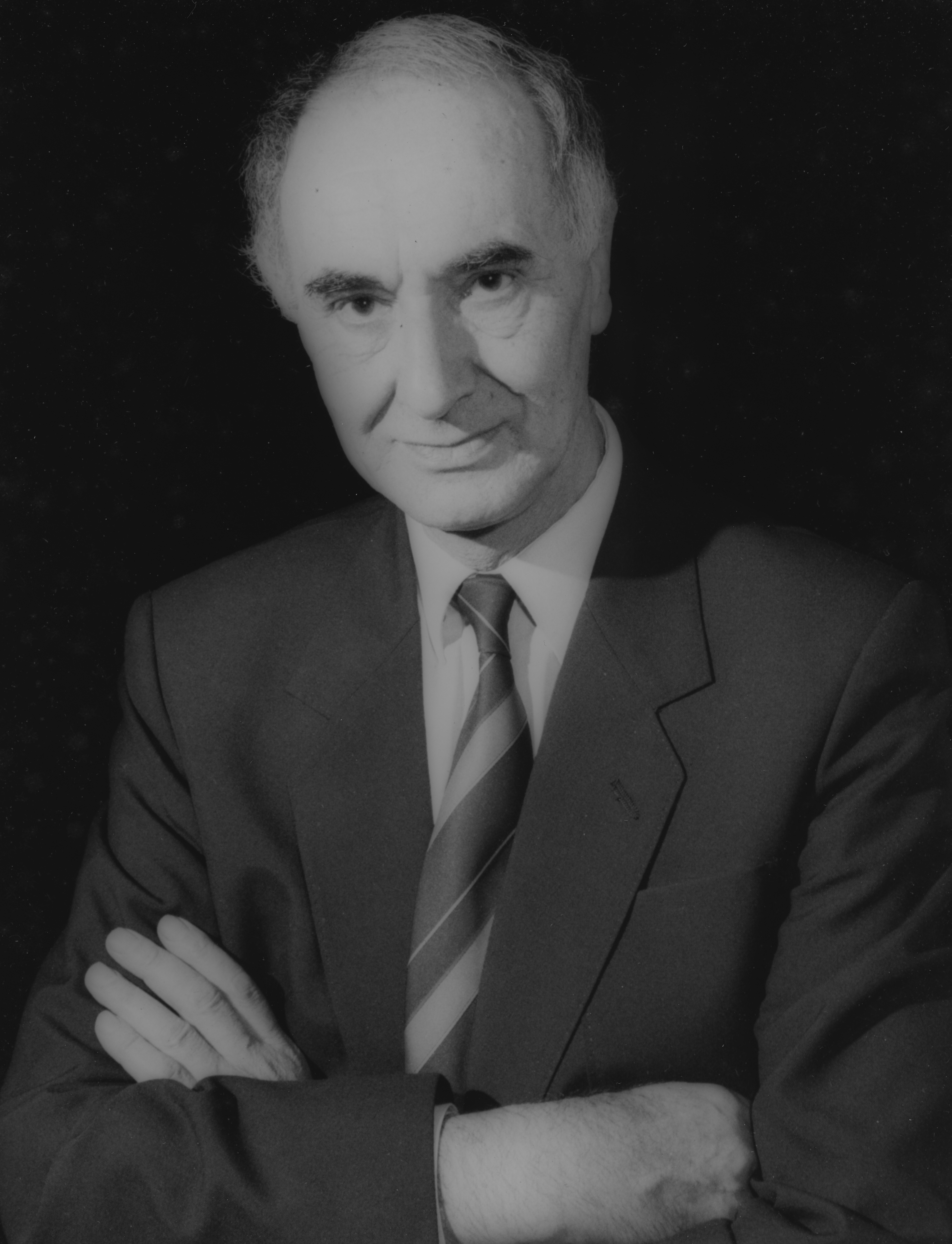 Professor of Government 1986-1992 IMAGELIBRARY/1282 Persistent URL